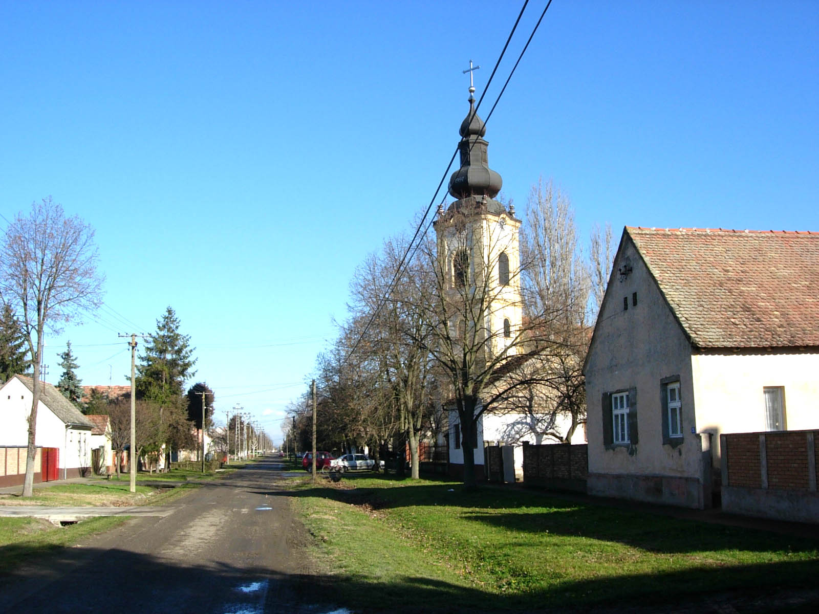 The Orthodox church in Jarak, Serbia.